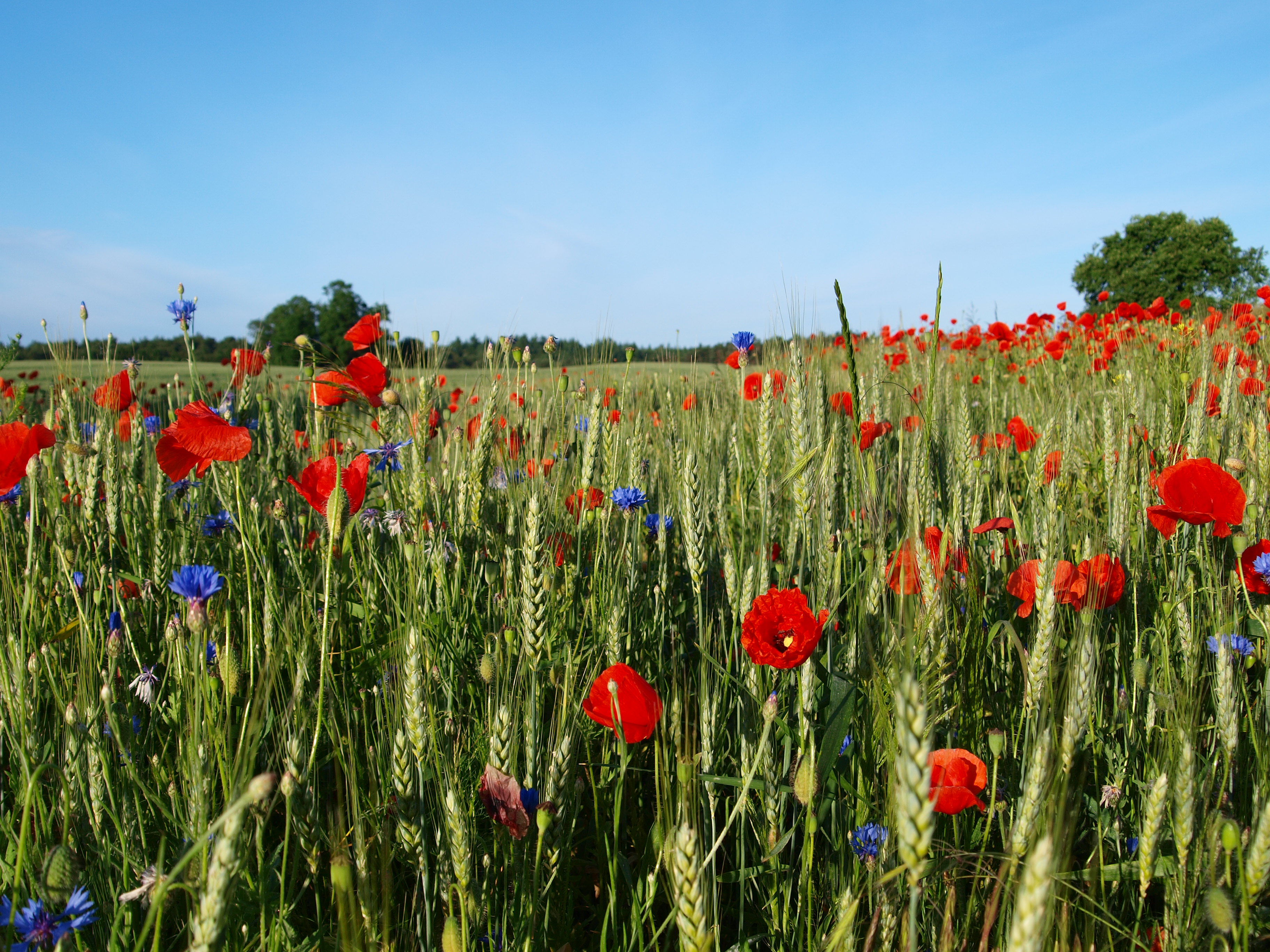 Tares of the field